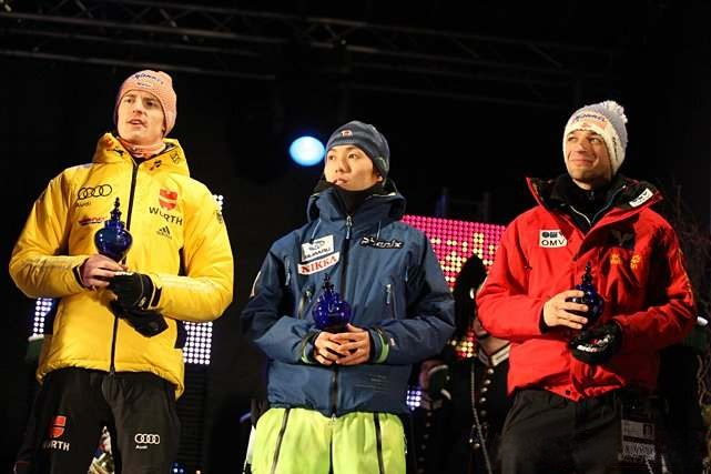 Severin Freund, Daiki Itō and Andreas Kofler after individual competition of FIS Ski-Flying World Championships 2012.